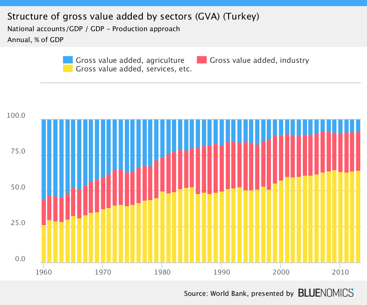 This chart shows the structural change in Turkish GDP by sectors